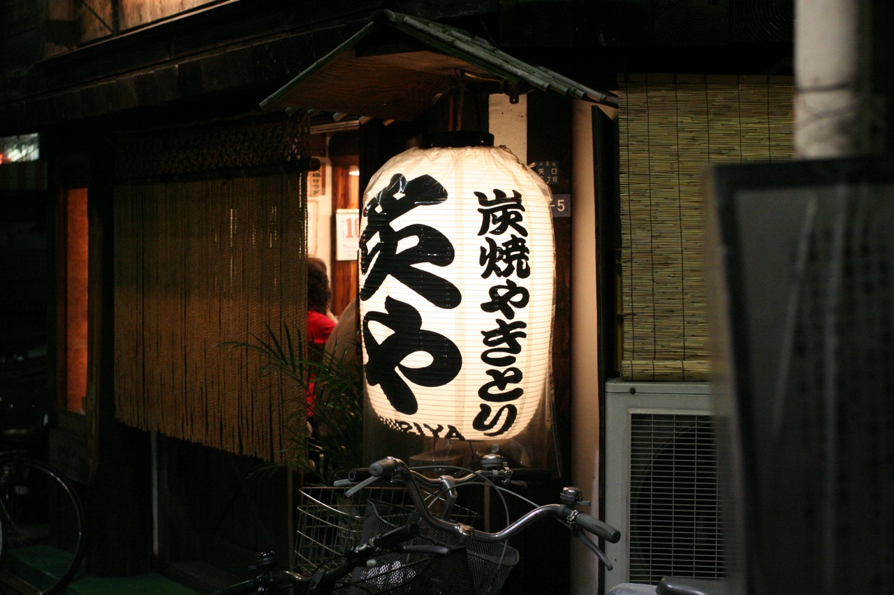 The lampion in front of Aburiya, my favourite yaki nikue place.